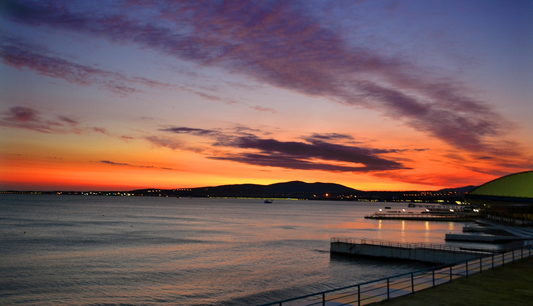 Sunset in Black Sea, Gelendzhik, Russia.